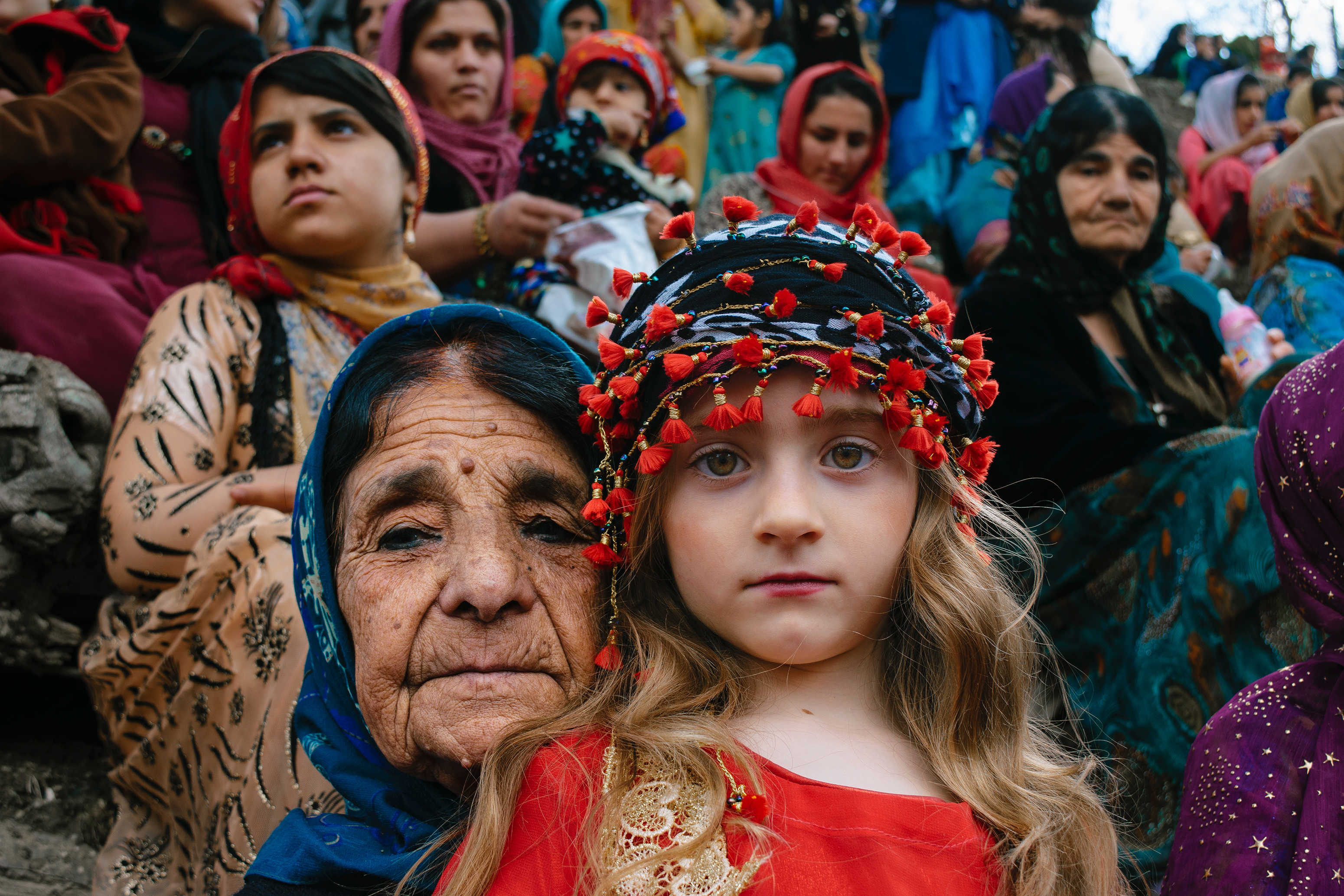 A grandma and her grandchild watching the “Nowruz” ceremony. Kurdish dress code reflects Kurdish culture and Kurdish clothing differs from men to women. This photo was taken in 2017 in one of the Kurdistan villages: Besaran Village, Kurdistan, Iran.